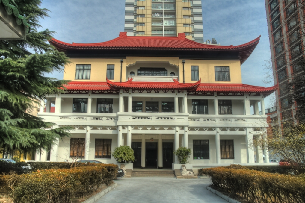 Chenguofu's home in shanghai.